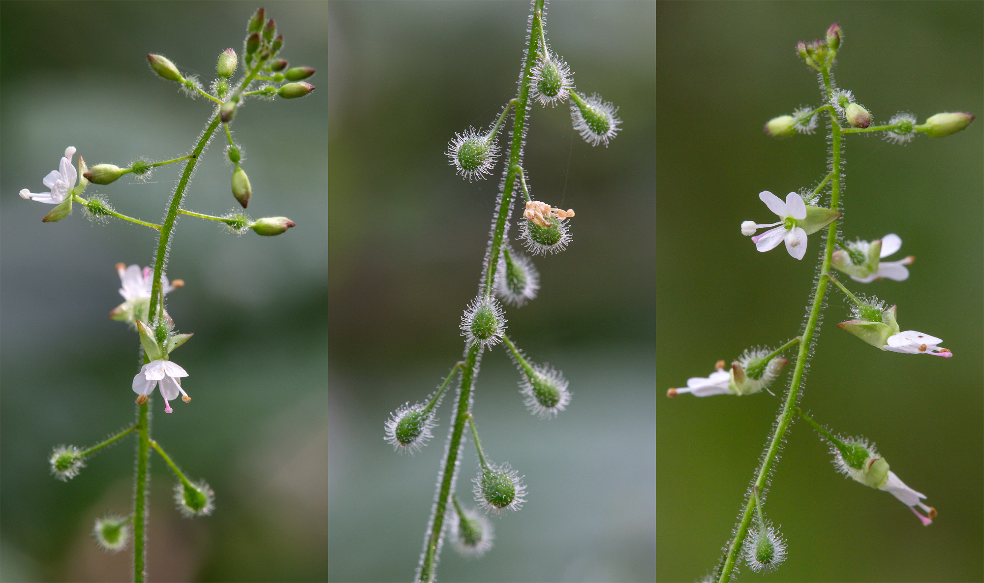 Blossoms and fruits of Enchanter's nightshade (Circaea lutetiana).